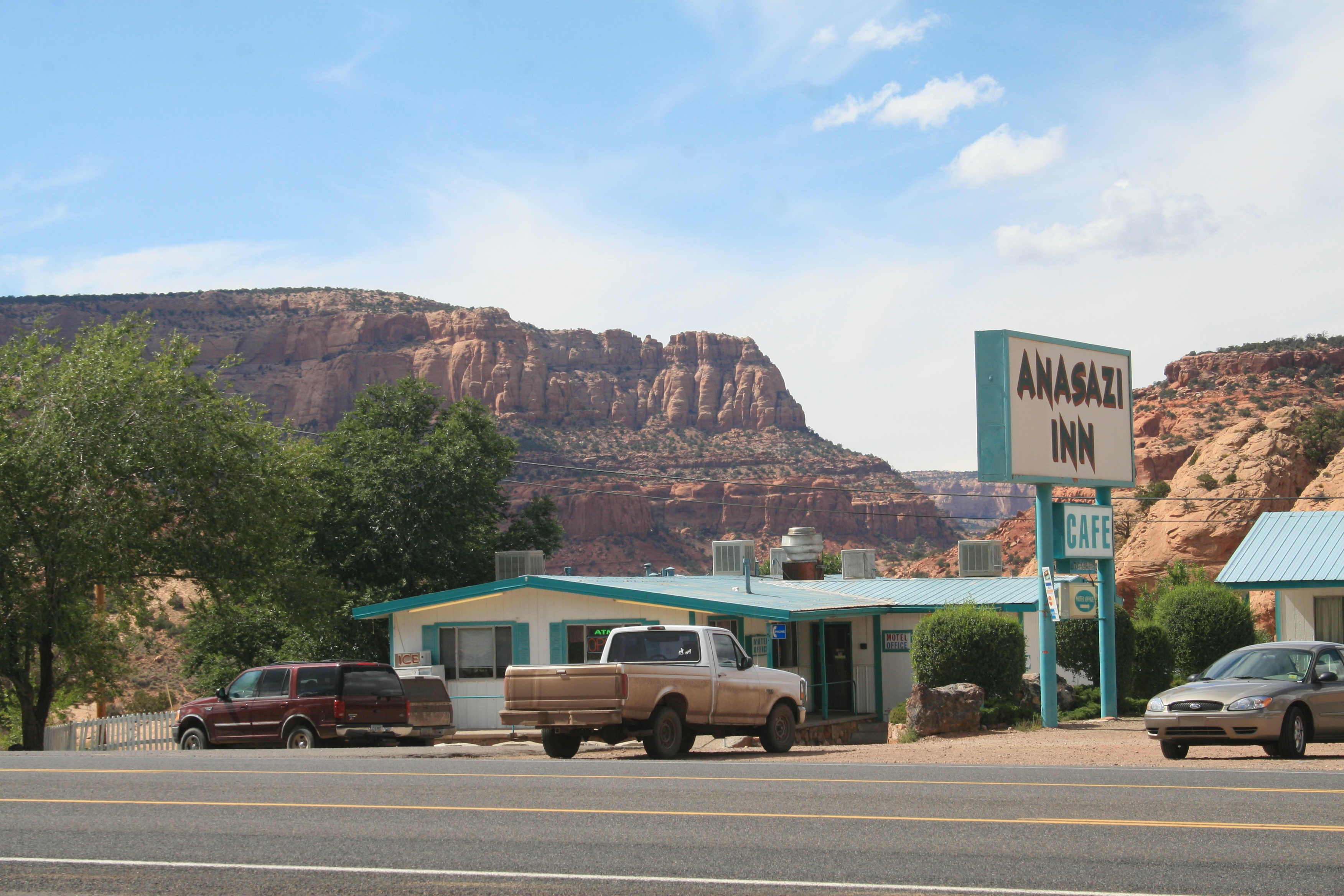 Tsegi, Navajo County, Arizona Anasazi Inn, a motel at the U.S. route 160 at Tsegi Canyon.